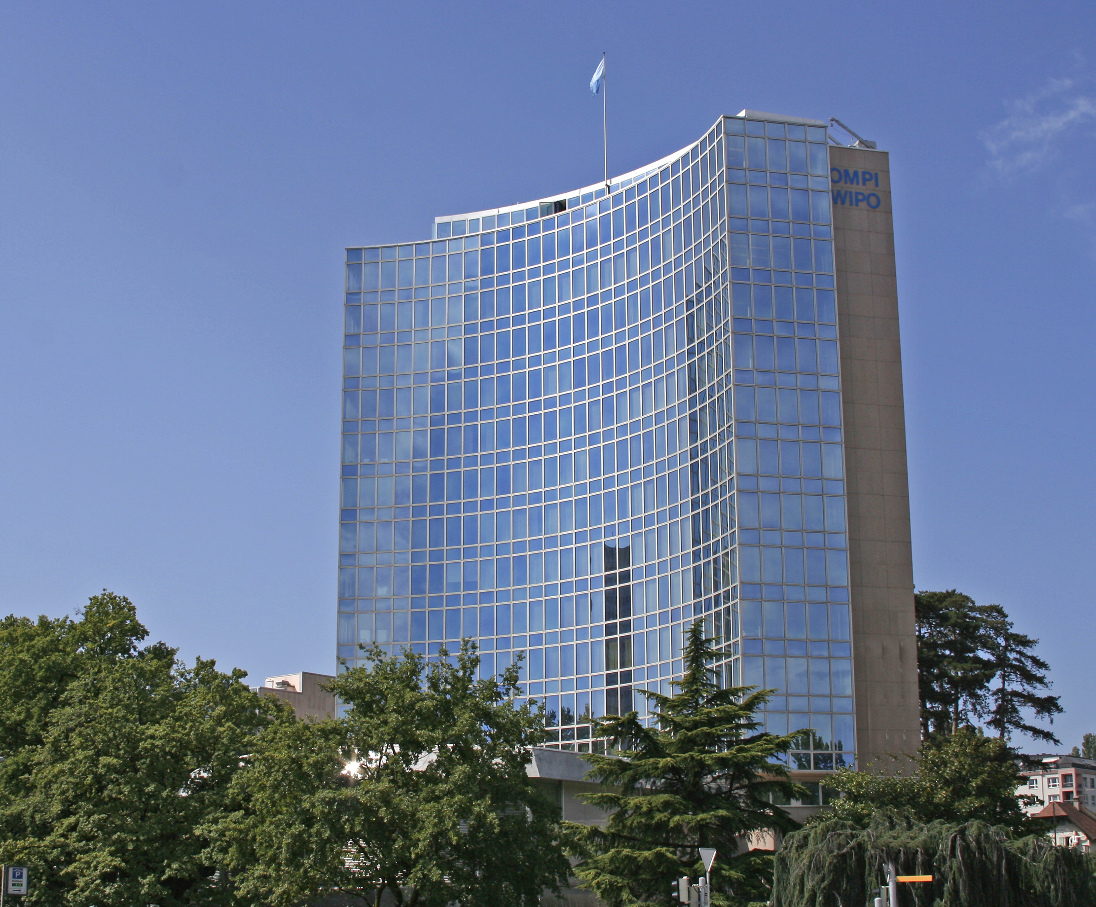 World Intellectual Property Organization (WIPO) Headquarters (the Árpád Bogsch Building also known as the Main Building) in Geneva, Switzerland